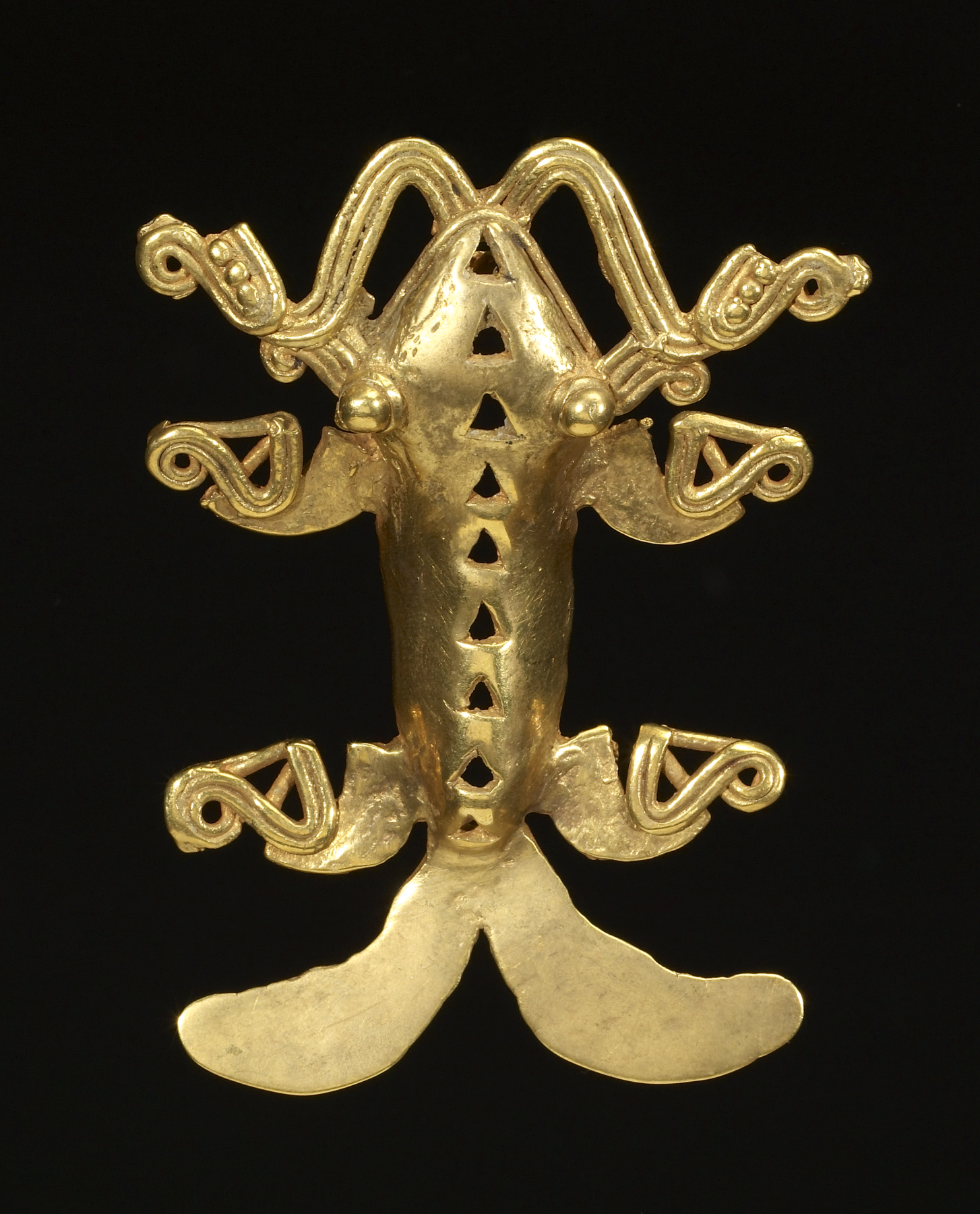 This gold pendant combines the characteristics of a frog, an iguana, a crocodile and a shark. The motif seen coming from the creature's mouth is a double-headed crocodile. This stylized motif is seen everywhere in Pre-Conquest Panamanian art. Smaller crocodile heads sprout from the creature's "shoulders" to support the double headed crocodiles coming out of the animal's mouth. The head appears to be that of a frog, with large, round eyes that bulge out. Along the creature's spine are open designs in the shape of triangles, much like spines on the back of an iguana or a crocodile. The creature's limbs have stylized crocodile heads at their ends. A large, fish-like tail protrudes from the creature's end. Finally, the open mouth, seen only in profile, displays an impressive set of pointed teeth, enlarged versions of crocodile or shark teeth. Part of the first group of ancient American gold objects to enter Henry Walters' collection, this composite amphibian creature is typical of the Gran Chiriqui style of Panama.